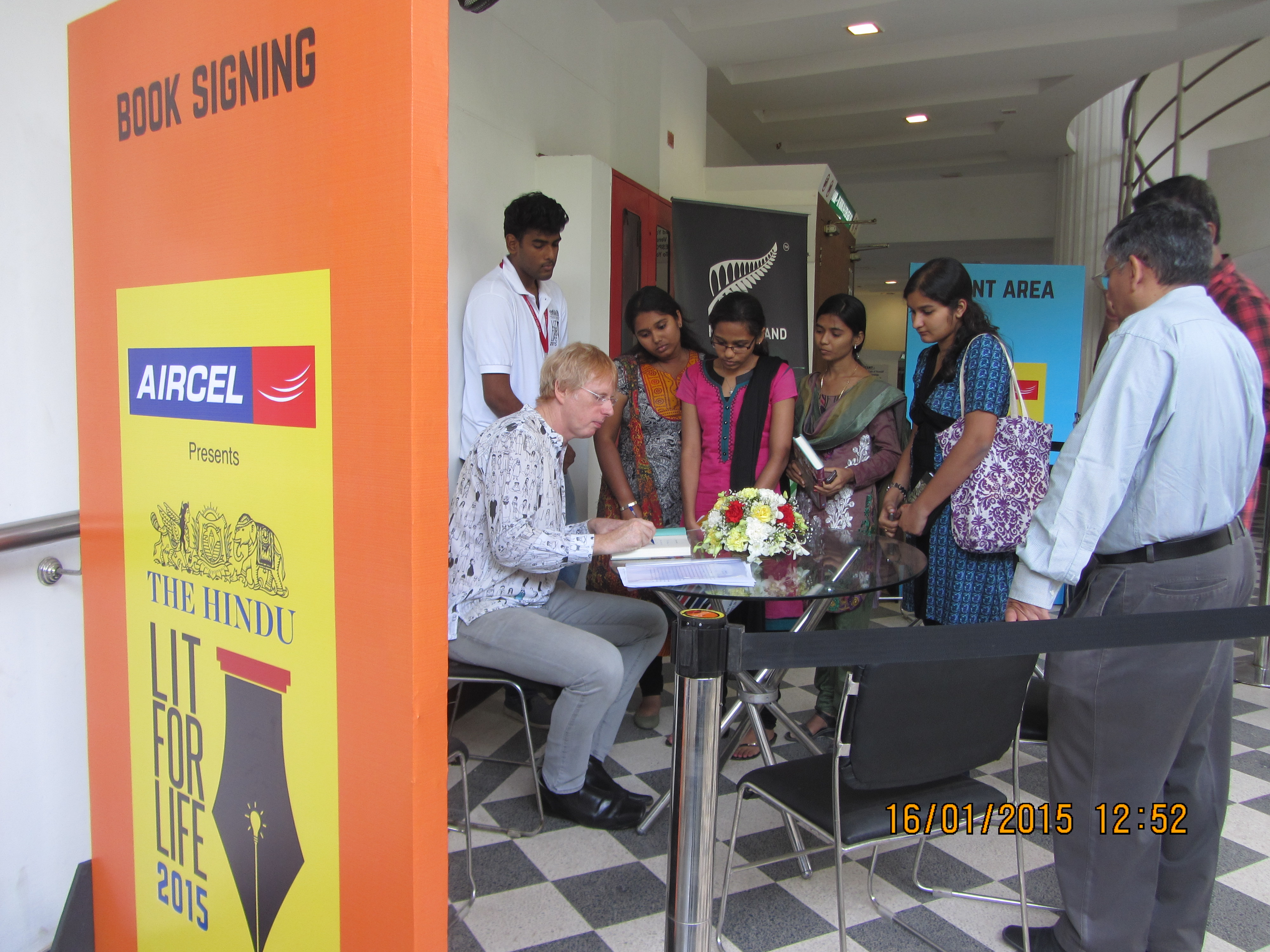 The-Hindu-Lit-For-Life-2015-Author-Signing